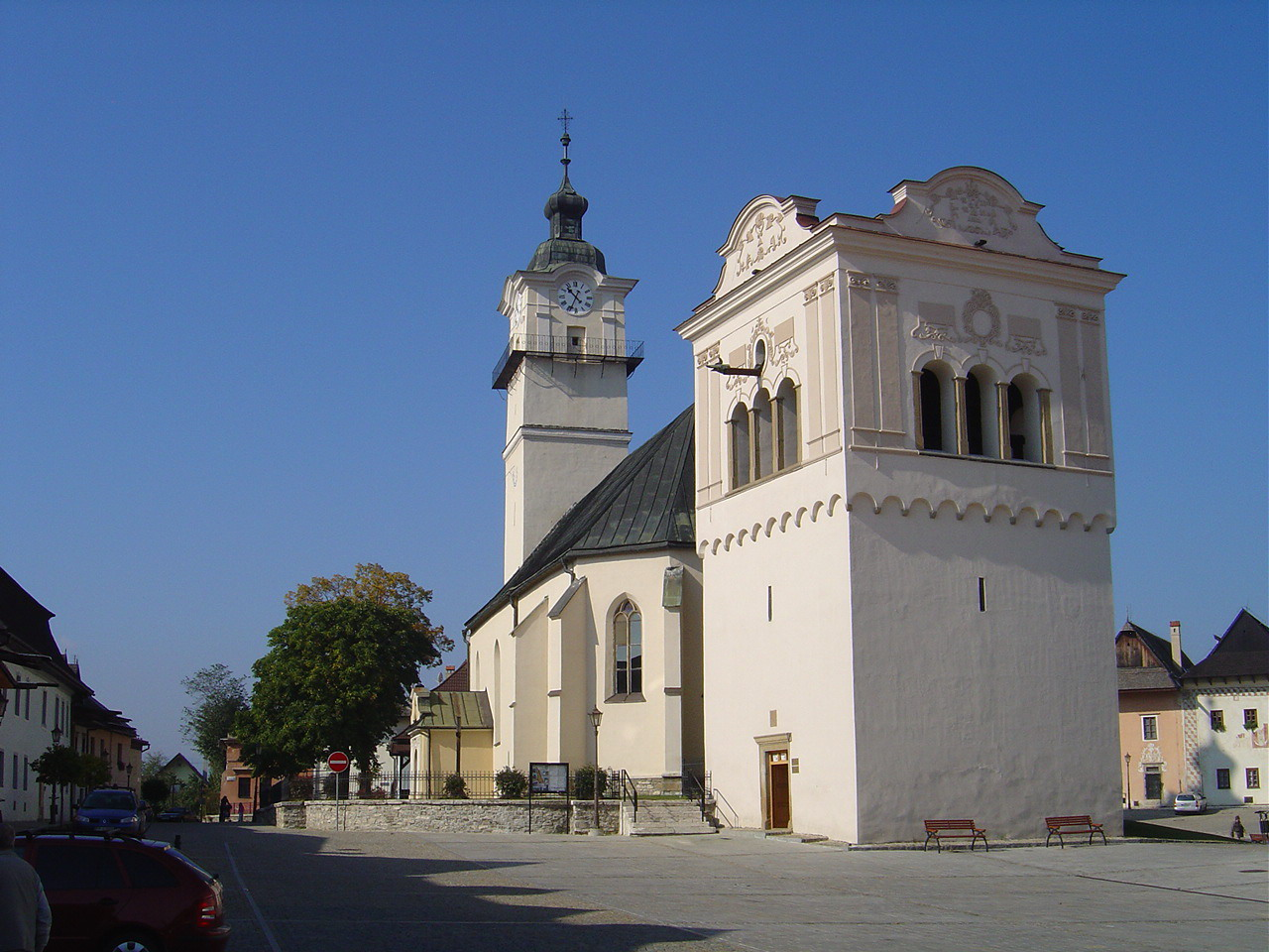 Spišská Sobota square